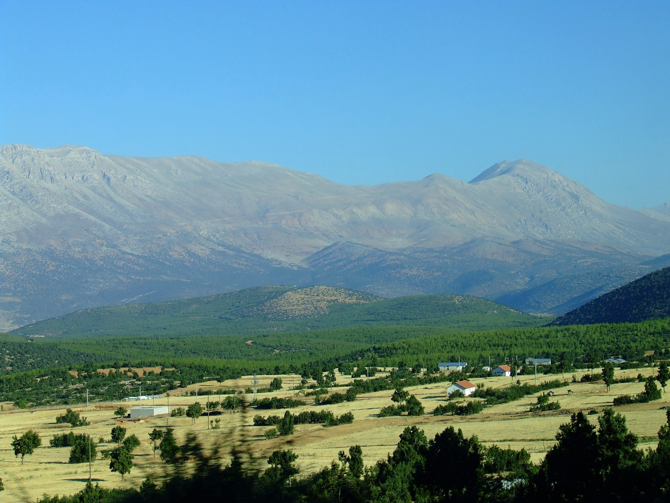 Mountains in Aegean Region, Turkey, taken from a moving car.